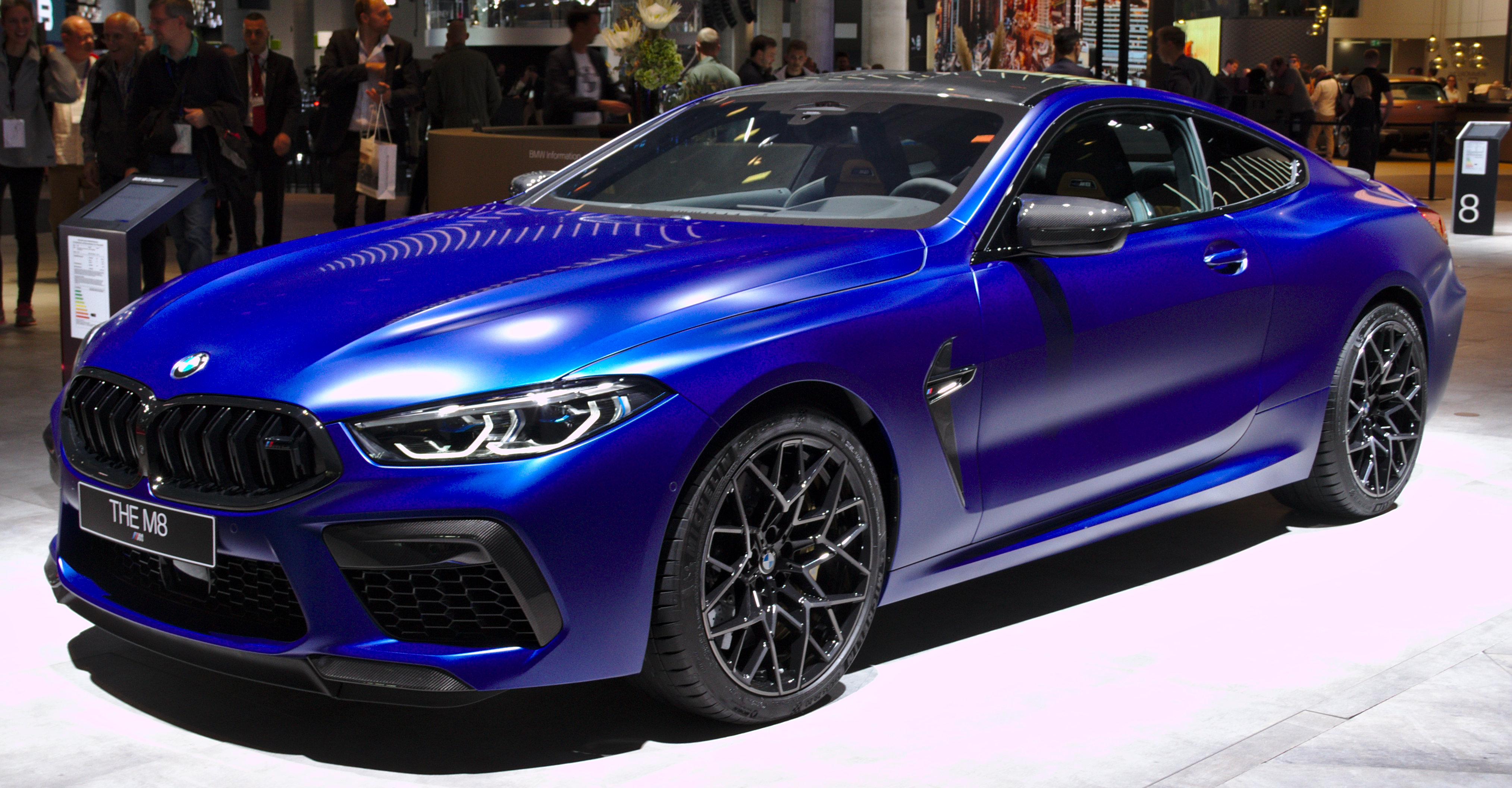 BMW_M8 at IAA 2019